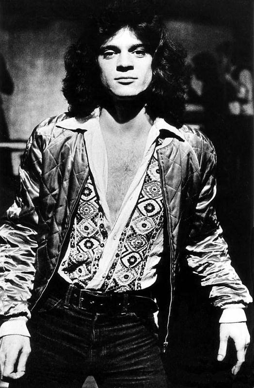 American-Swedish entertainer Steve Vigil, as released by image owner Lars Jacob Prod Place: Alexandra's, Biblioteksgatan 5, Stockholm, Sweden